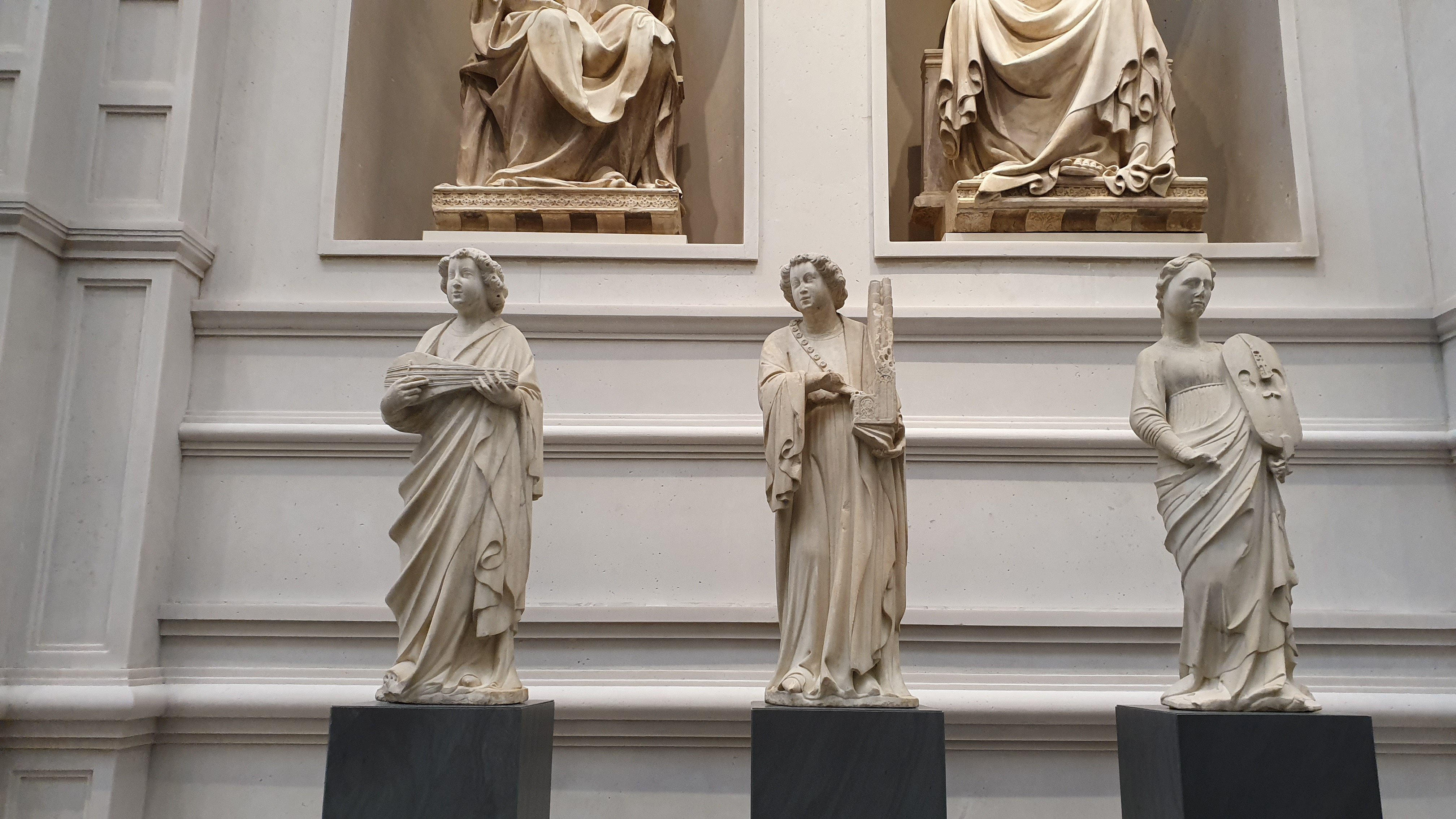 Angel musicians (with Lute, Portative organ, and Vielle) by Piero di Giovanni Tedesco-Santa Maria del Fiore-First facade